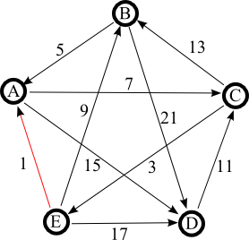 Schulze methode - Cloneproof Schwartz Sequential Dropping (CSSD), step one